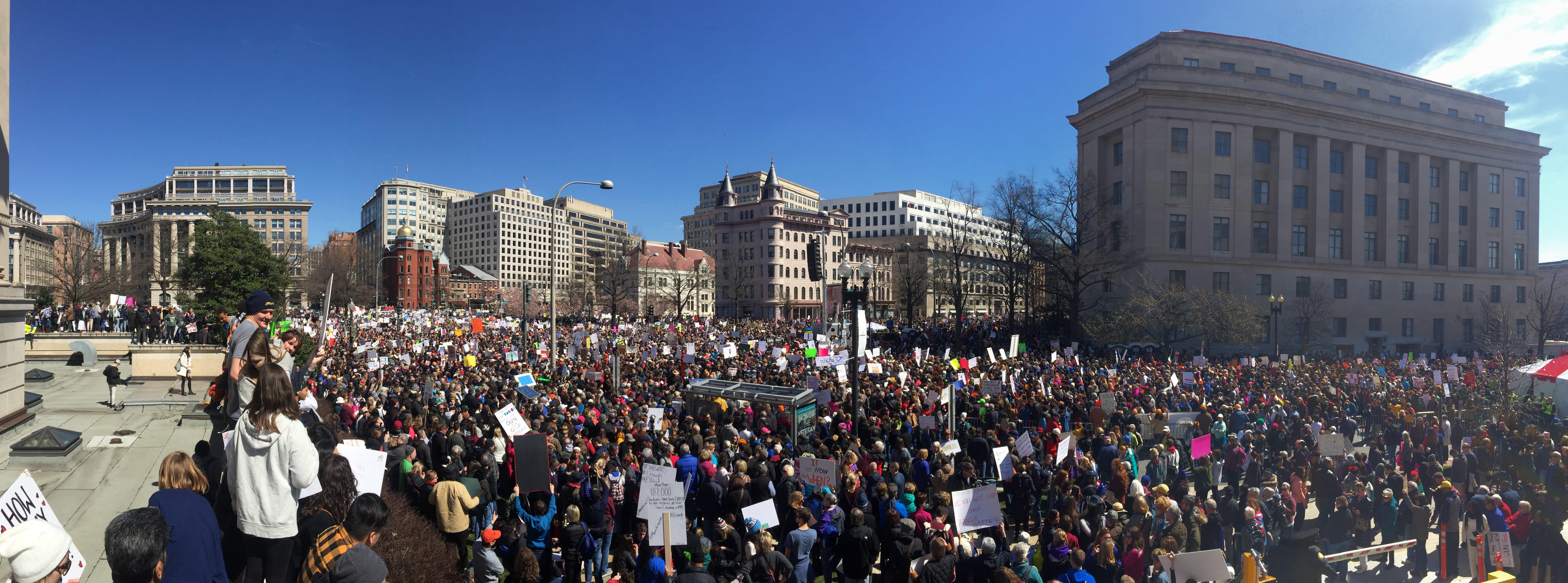 March for Our Lives on 24 March 2018 in Washington, D.C.